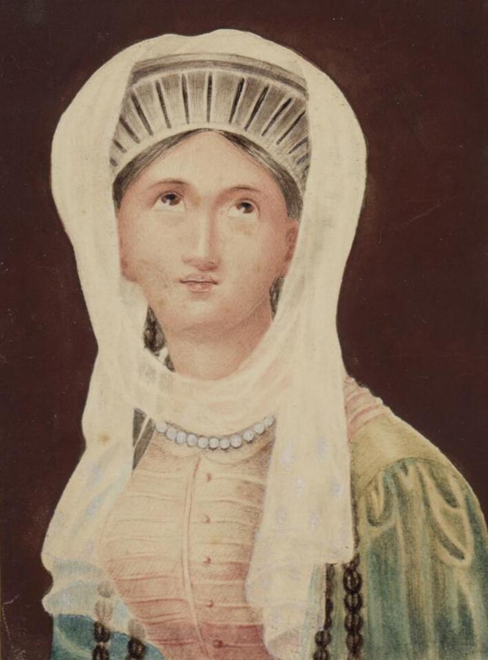 A portrait from the Welsh Portrait Collection at the National Library of Wales. Depicted person: Sarah Siddons – Welsh actress